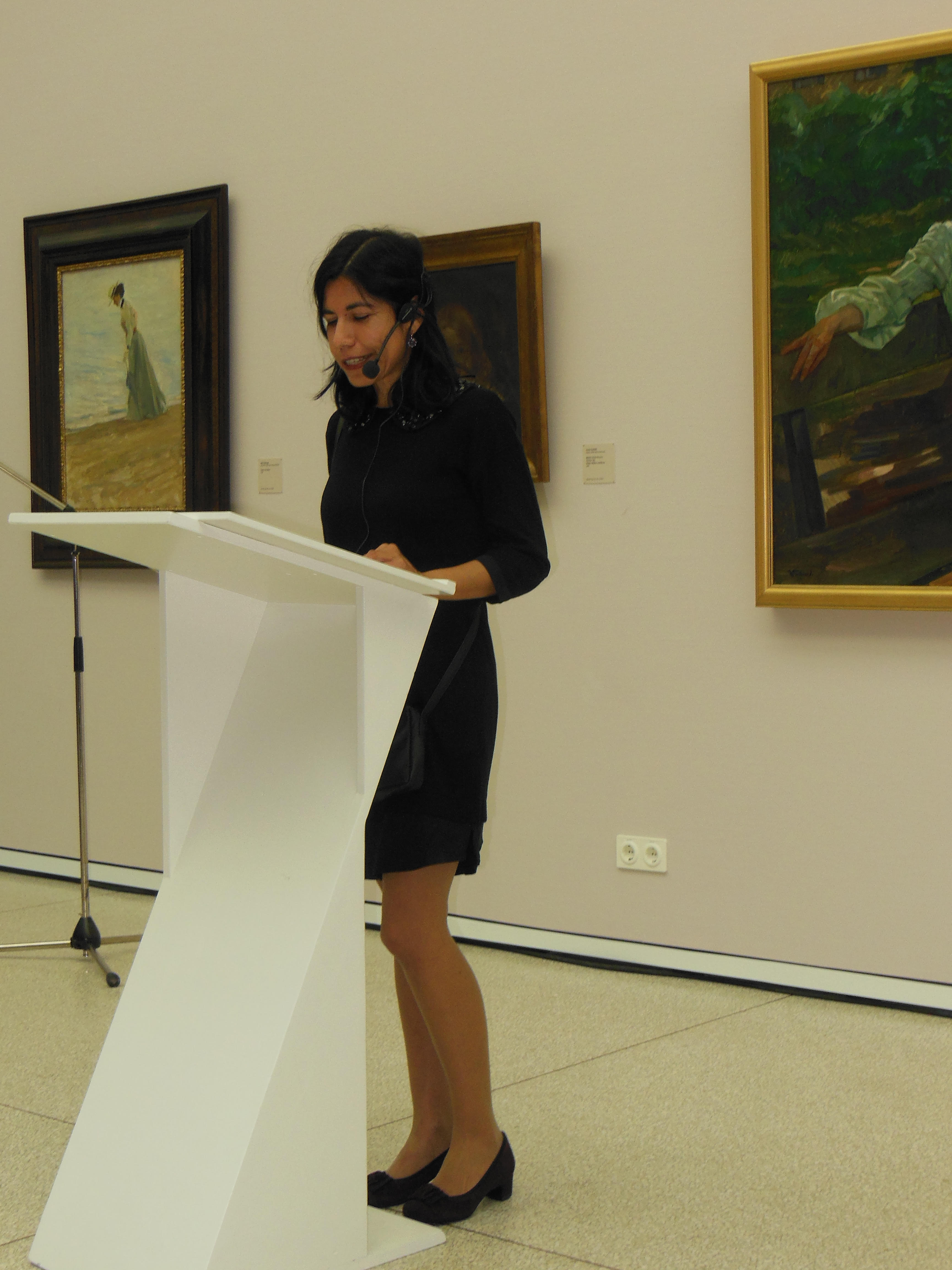 Fotografia de Geraldine Gutierrez